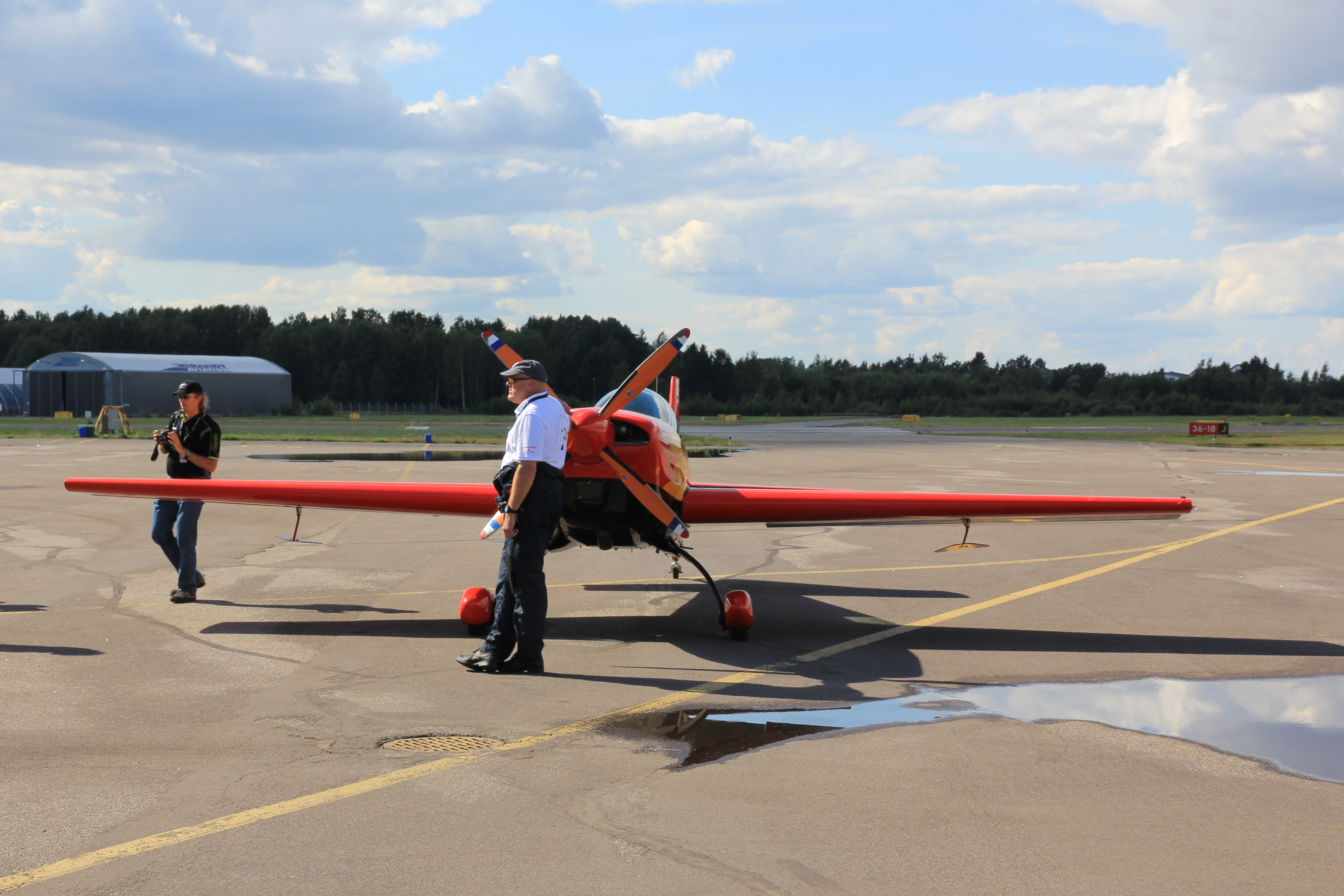 Frank Versteegh with his Extra 300L aircraft in Malmi airport at the end of the Sami Kontio Challenge air show.